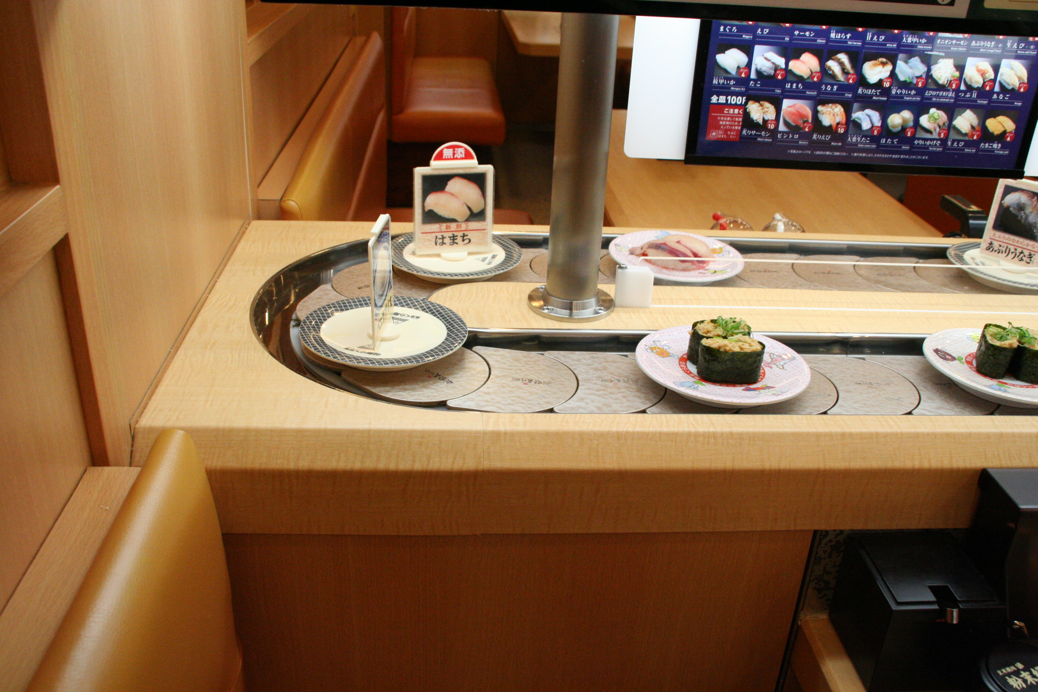 sushi conveyor chain by Tsubakimoto Chain Co.